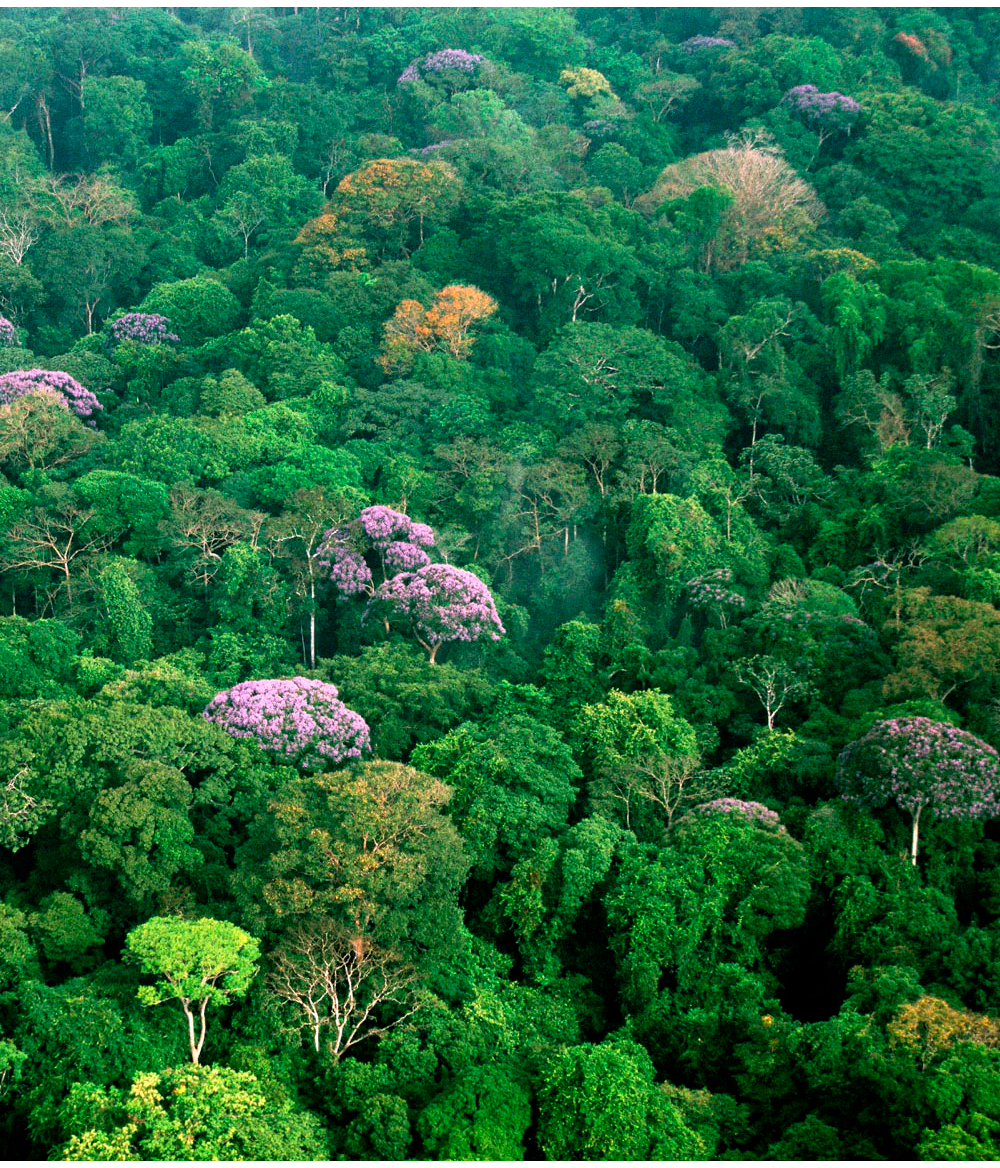 Conservation Efforts Hinge on Understanding the Factors Controlling Biodiversity. The diverse forest canopy on Barro Colorado Island, (Darien Jungle) Panama - Colombia, has provided ecologist Stephen Hubbell with years of data to test his controversial neutral theory of biodiversity and biogeography.